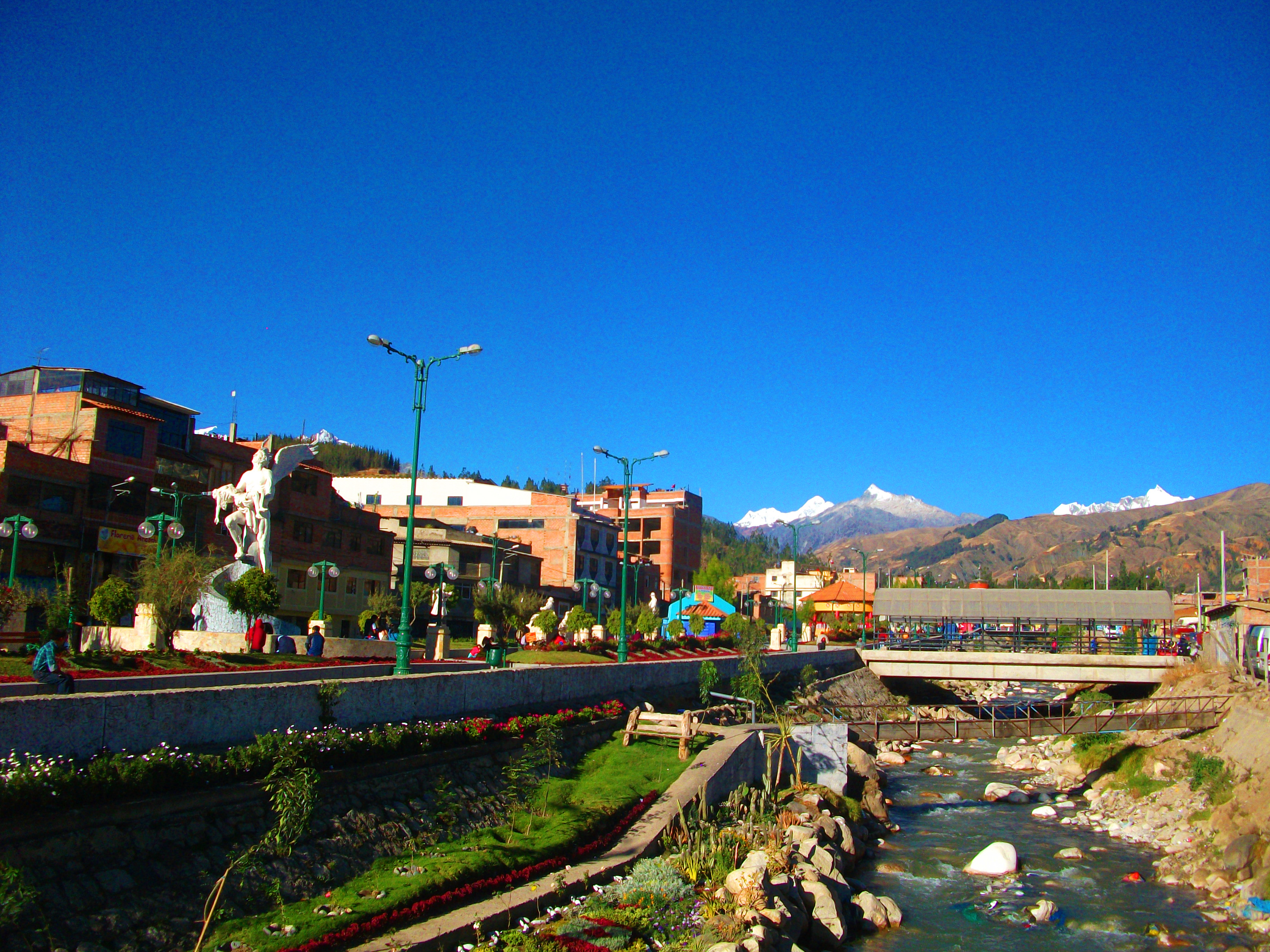 Quilcay River.